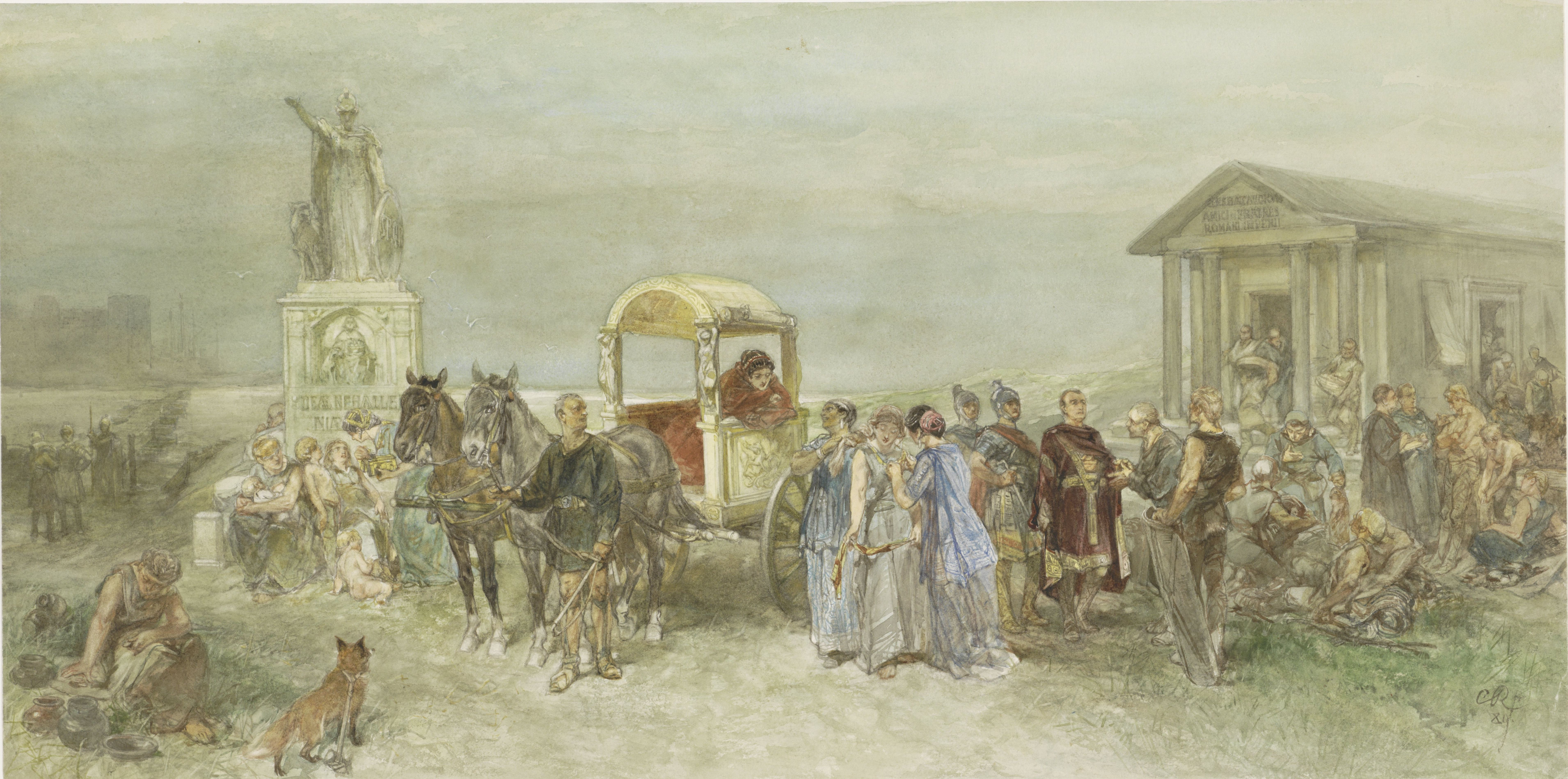 Market place with Romans and Bataves